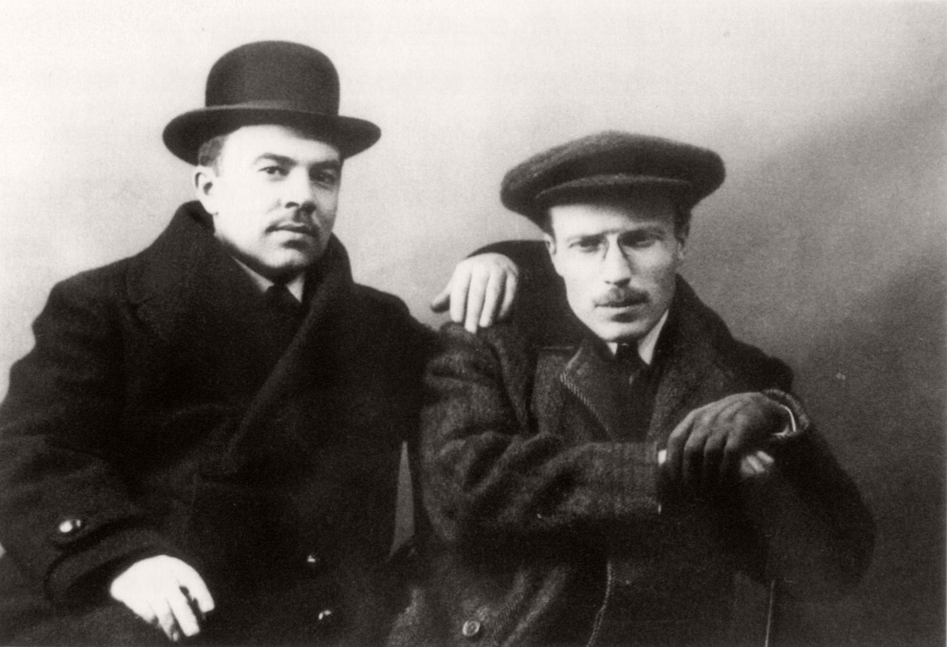 P. V. Kuznetcov and A. T. Matveev. 1909–1910